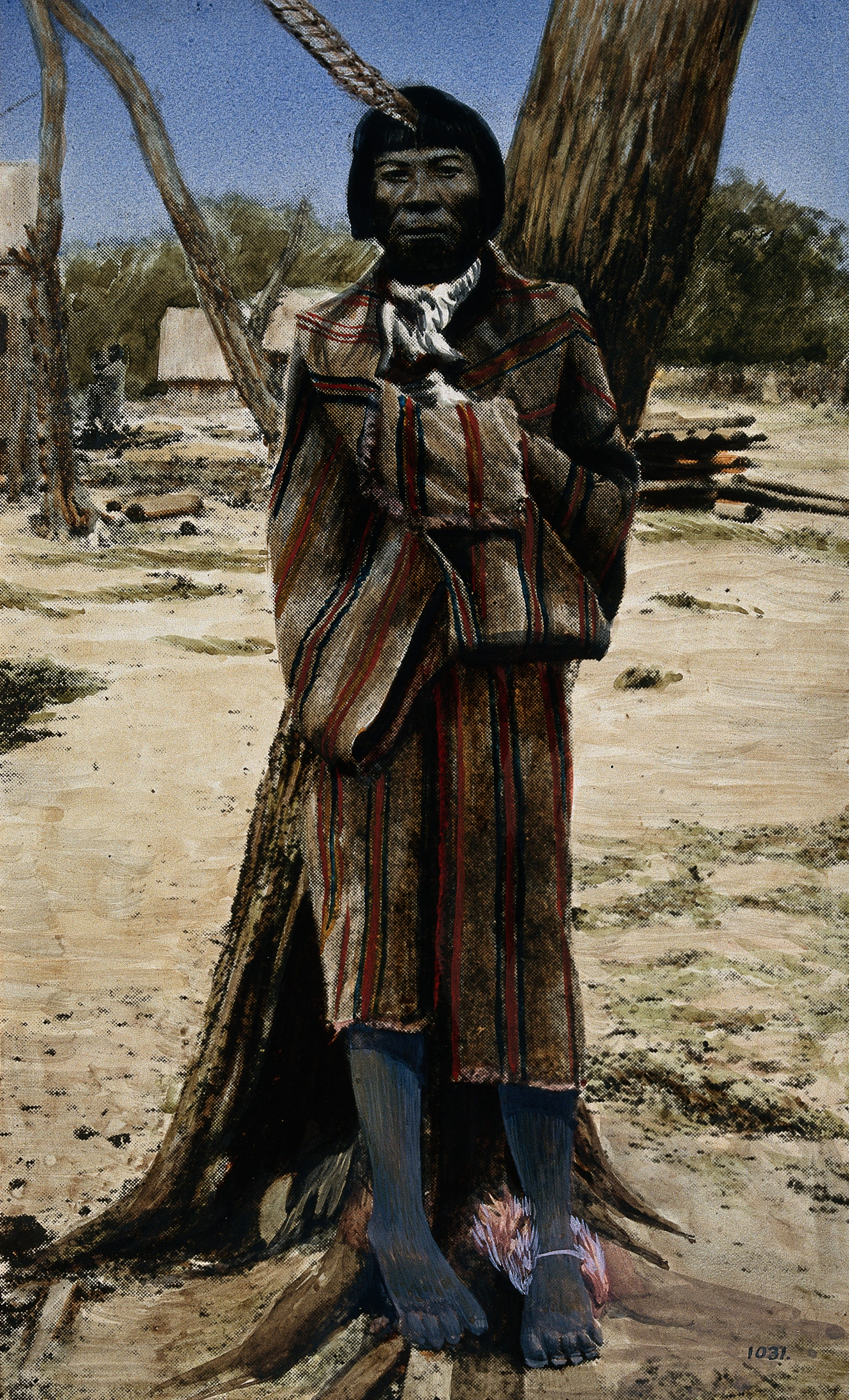 Gran Chaco, South America: Painting of a medicine man of the Lengua Iconographic Collections Keywords: Paraguay; Traditional medicine